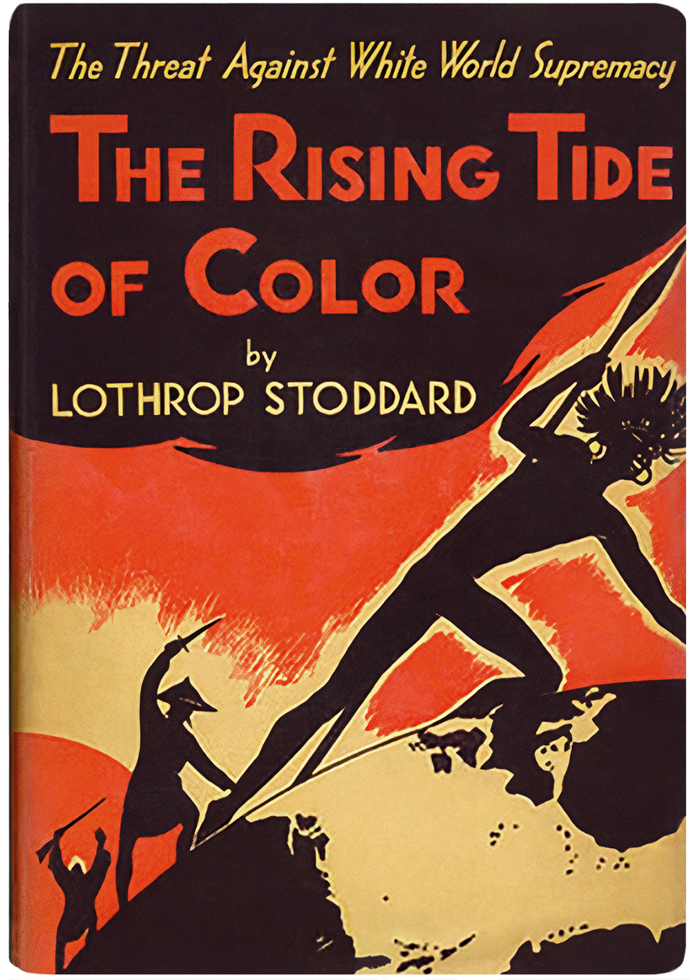 Dust jacket, first edition of The Rising Tide of Color Against White World-Supremacy